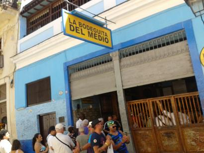 ¨La Bodeguita del Medio¨ in Havana City,Cuba